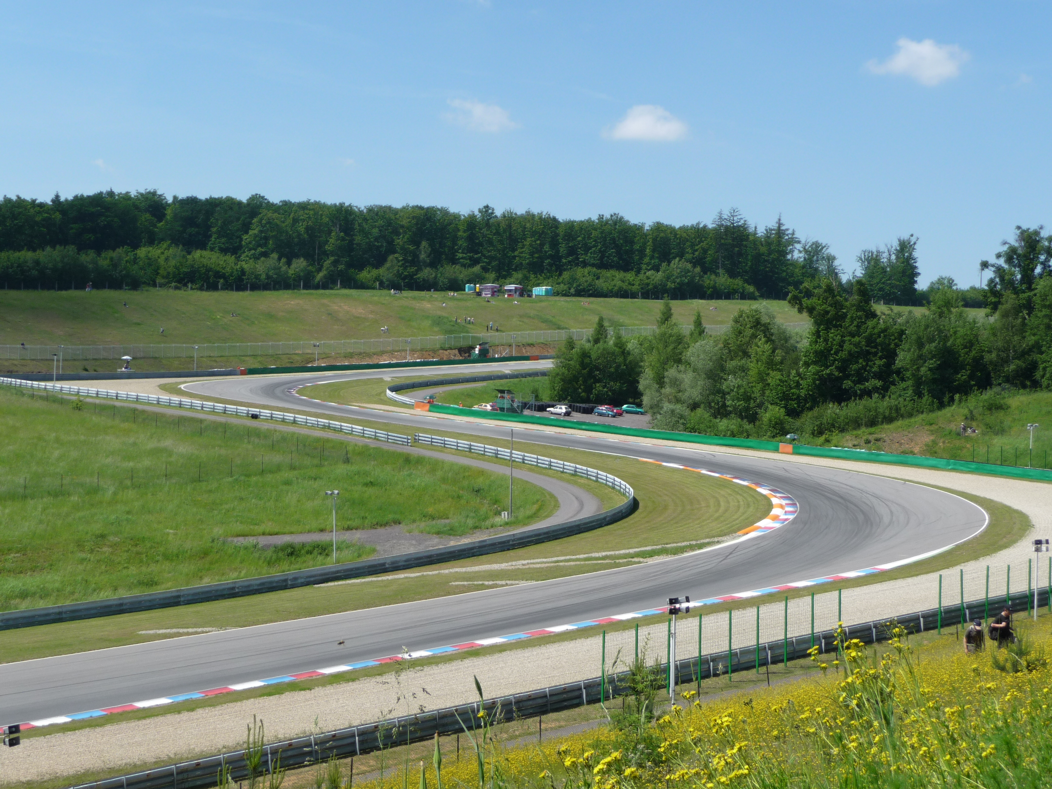 2010 Brno World Series by Renault -10-5-3-2◄►+2+3+5+10